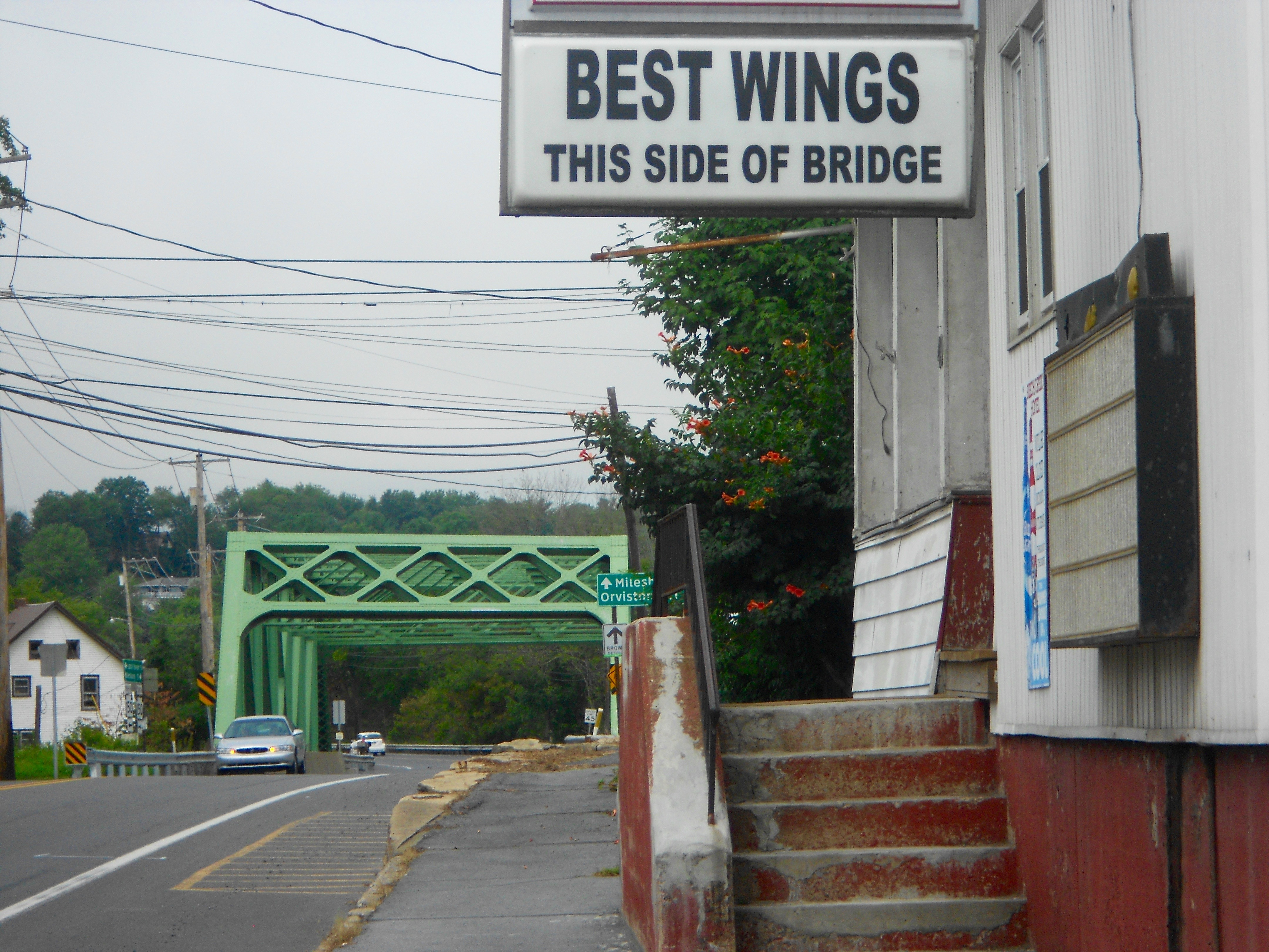 Bar sign reading "Best Wings this side of bridge". Bridge over Beech Creek is in the background. In Beech Creek, Clinton County, Pennsylvania